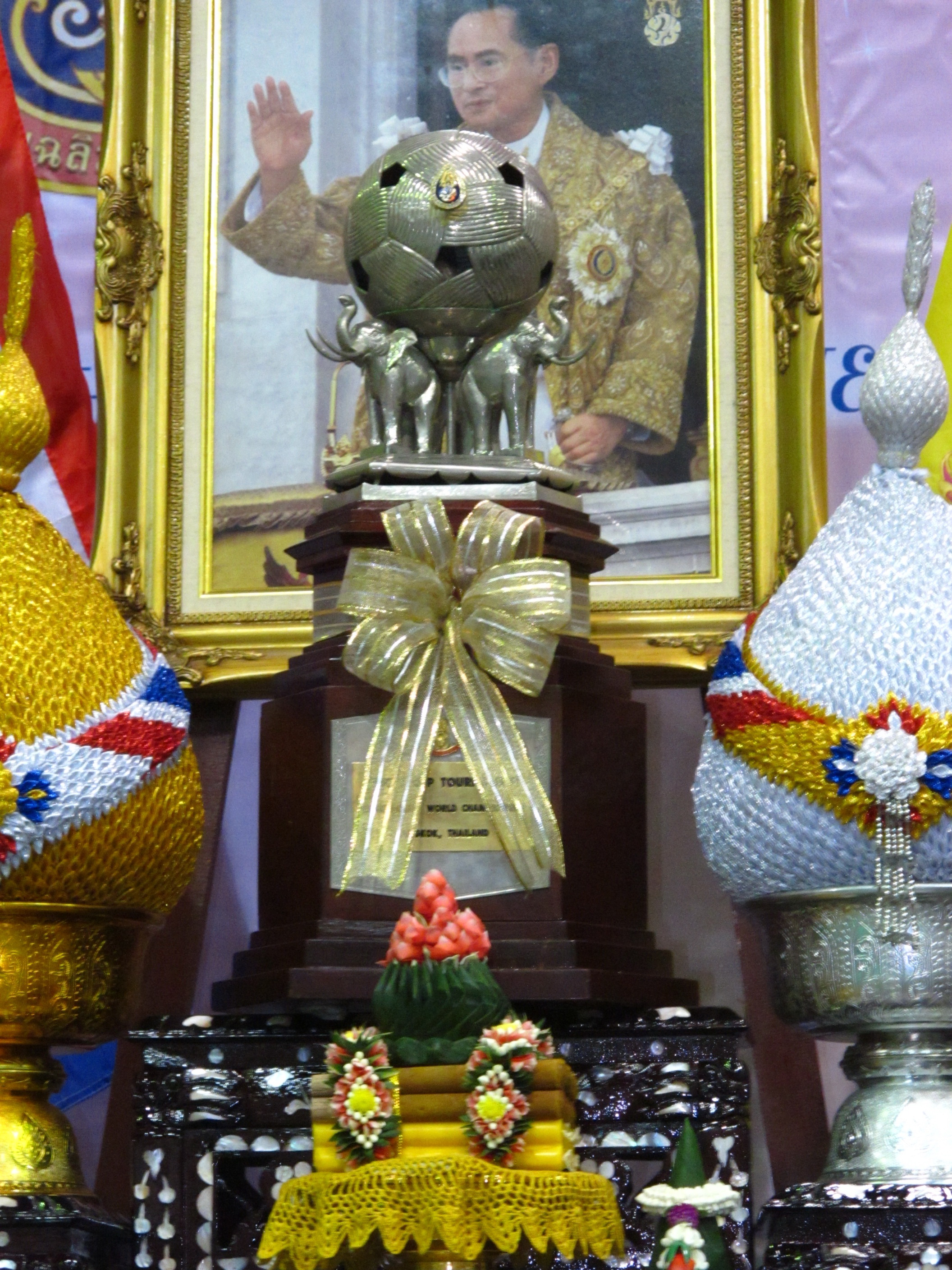 King's Cup Sepak Takraw 1